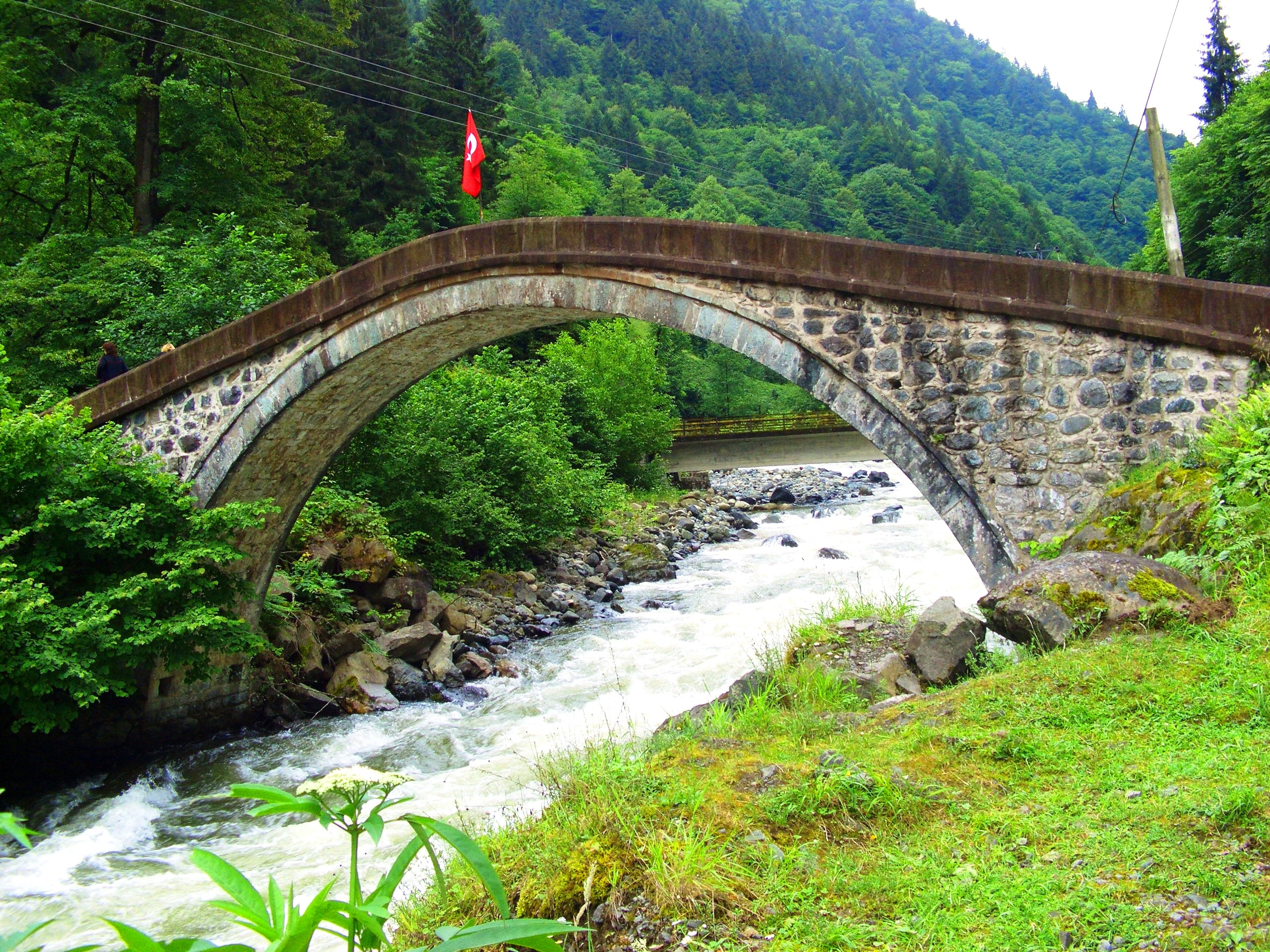 One of stone arch bridges over Firtina Deresi which has been built in Ottoman Empire Era in 19th Century. It is located in Çamlıhemşin District of Rize province in the Black Sea Region of Turkey.